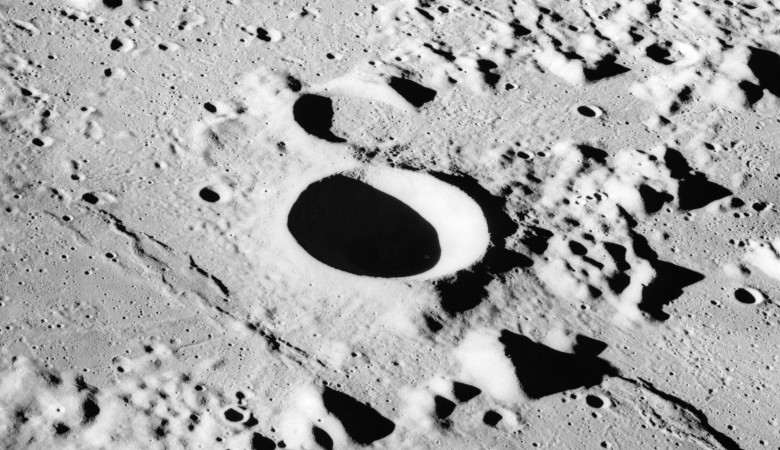 Darney crater photo AS16-M-2493, north is at the bottom